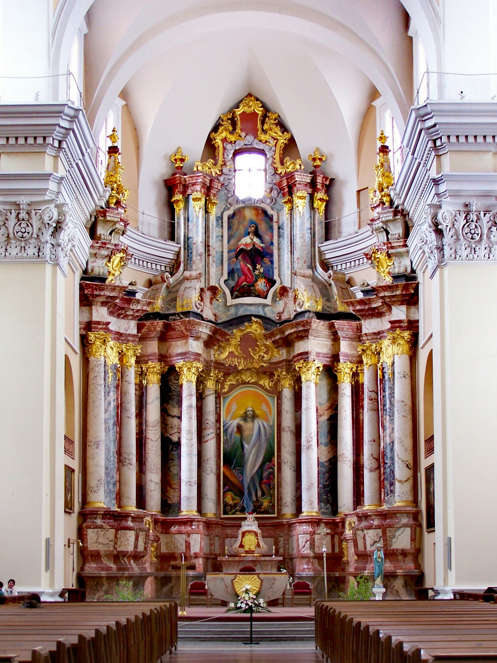 Altar of St. Casimir's Church in Vilnius (Lithuania).